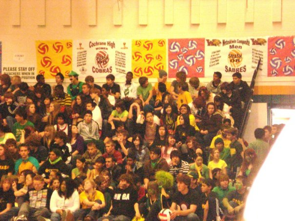 Students of Louis St. Laurent enjoying S.M.A.S.H. 2008